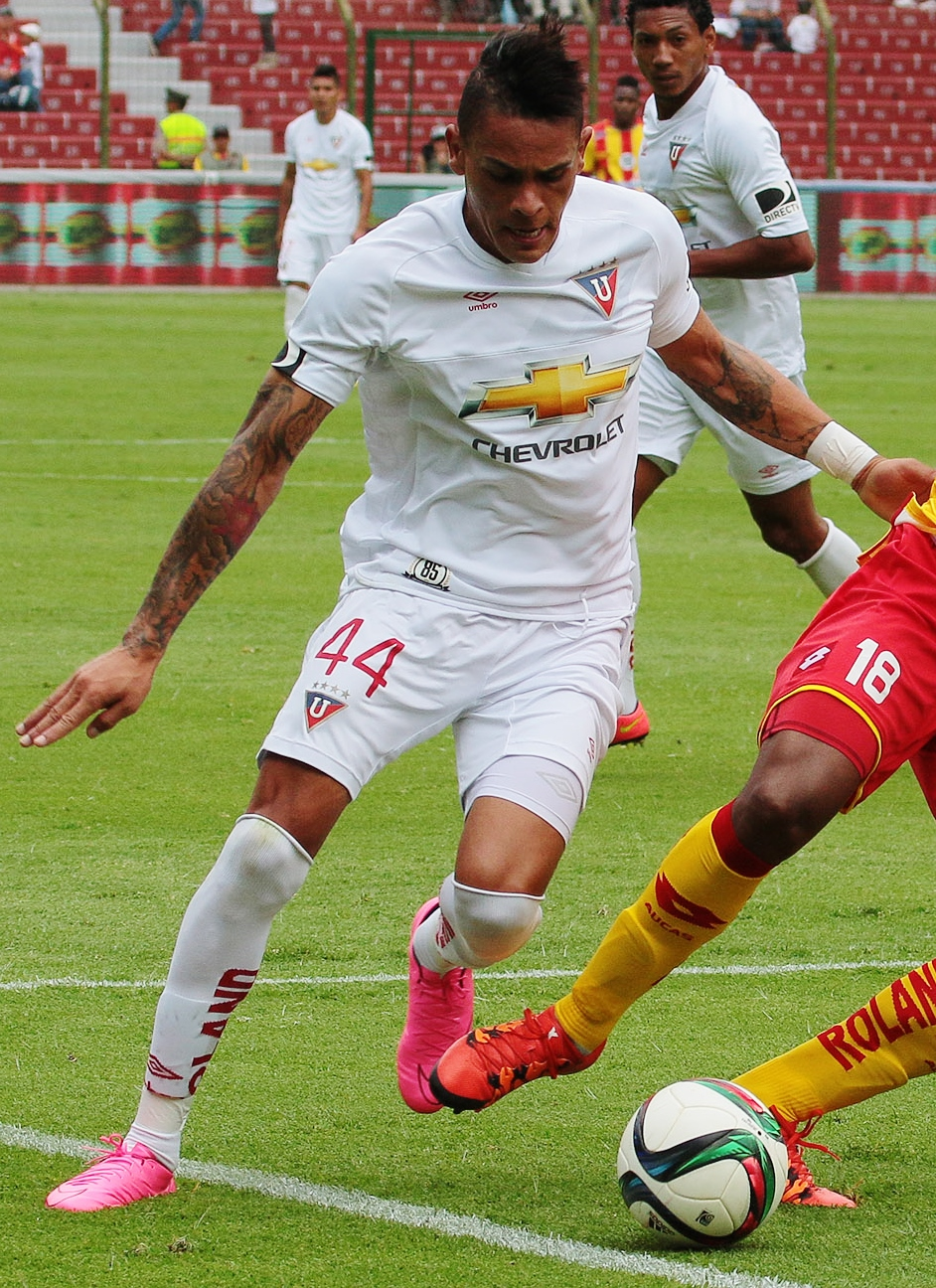 Jonathan Álvez